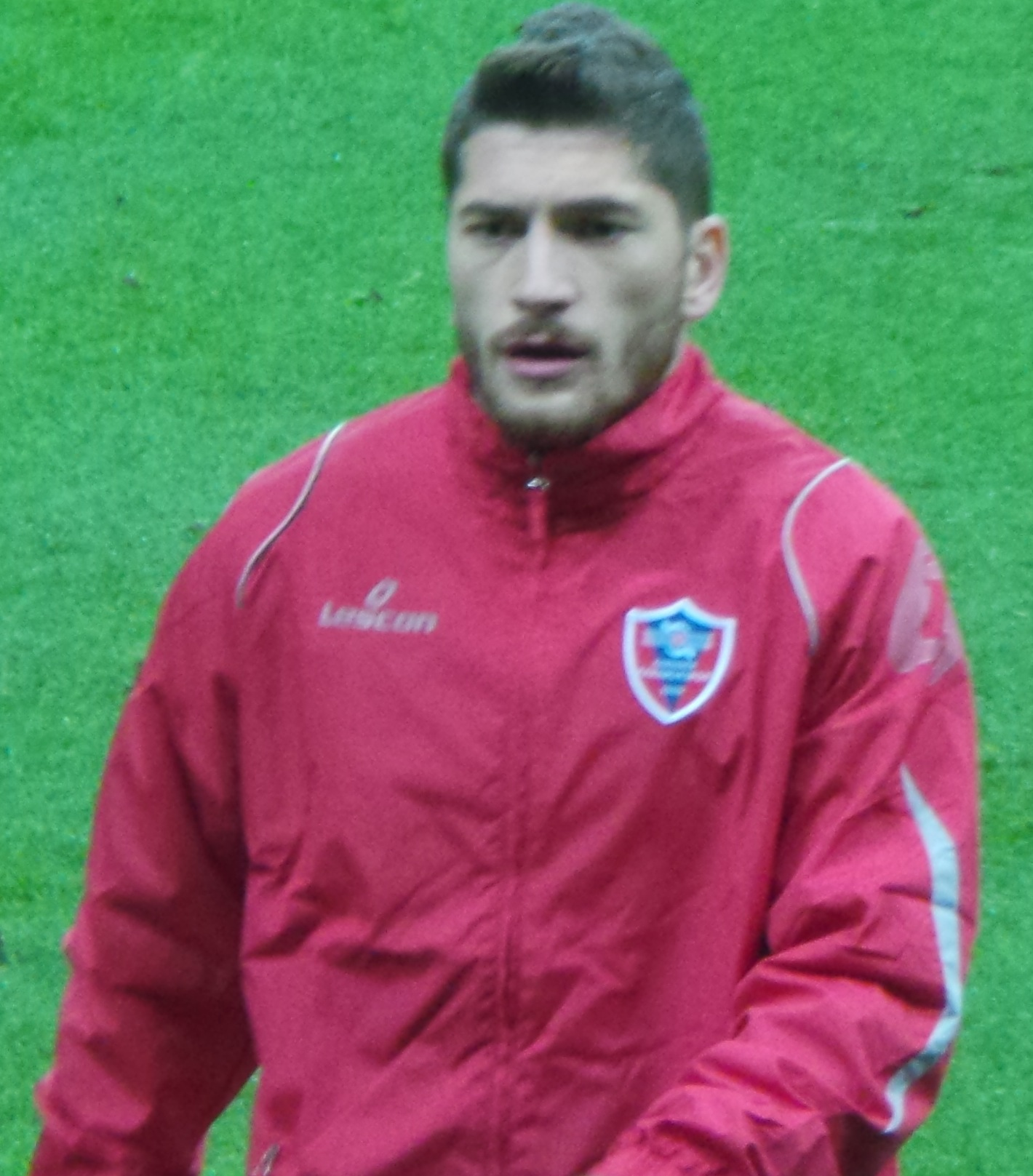 emre özkan with Karabükspor